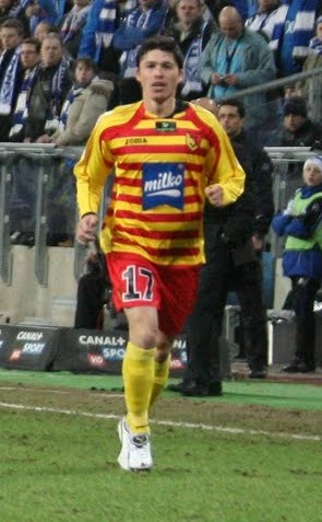 Chilean football player Alexis Norambuena